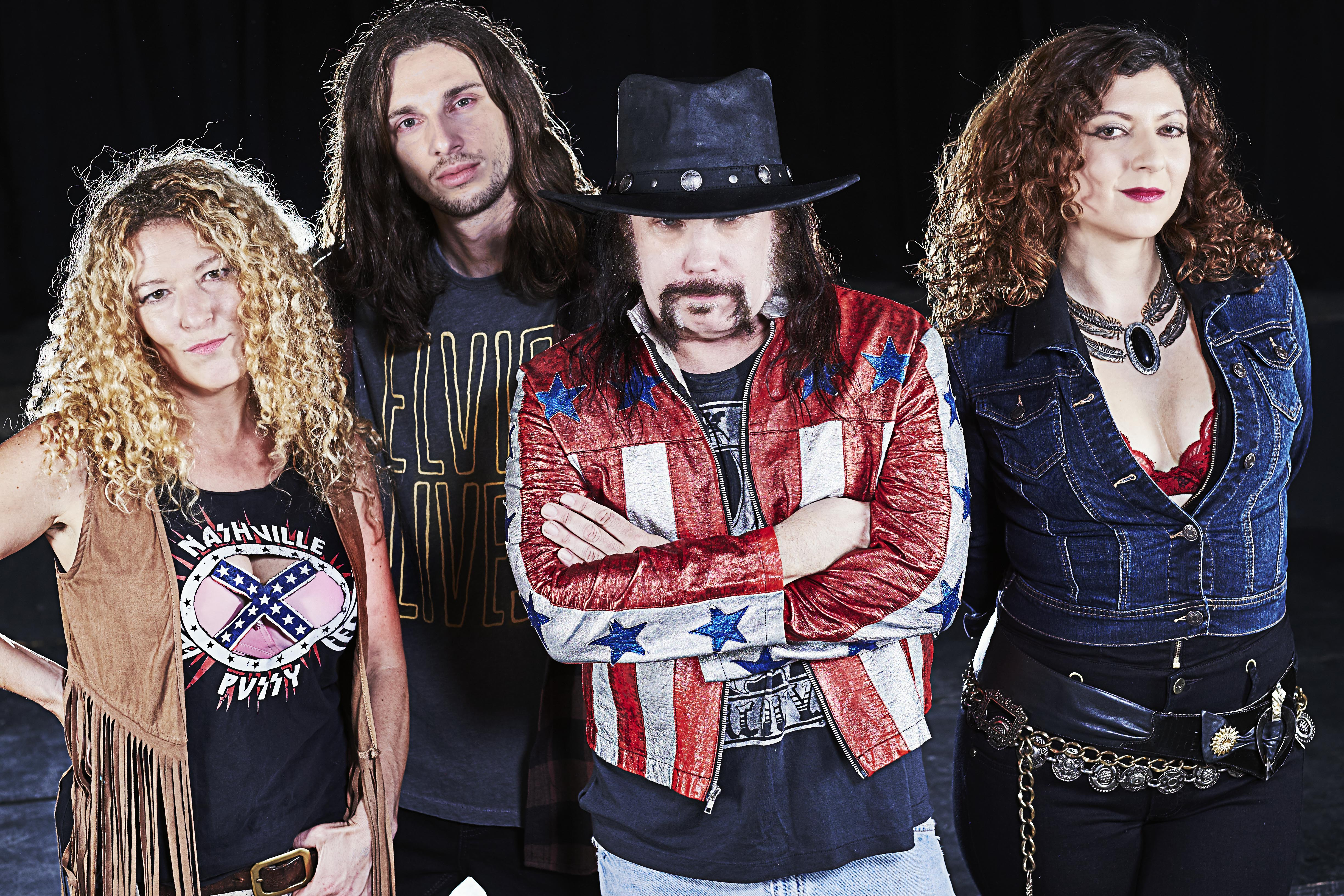 Nashville Pussy Band Closeup Photo